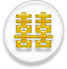 Hanzi of marriage[1], white and golden version.